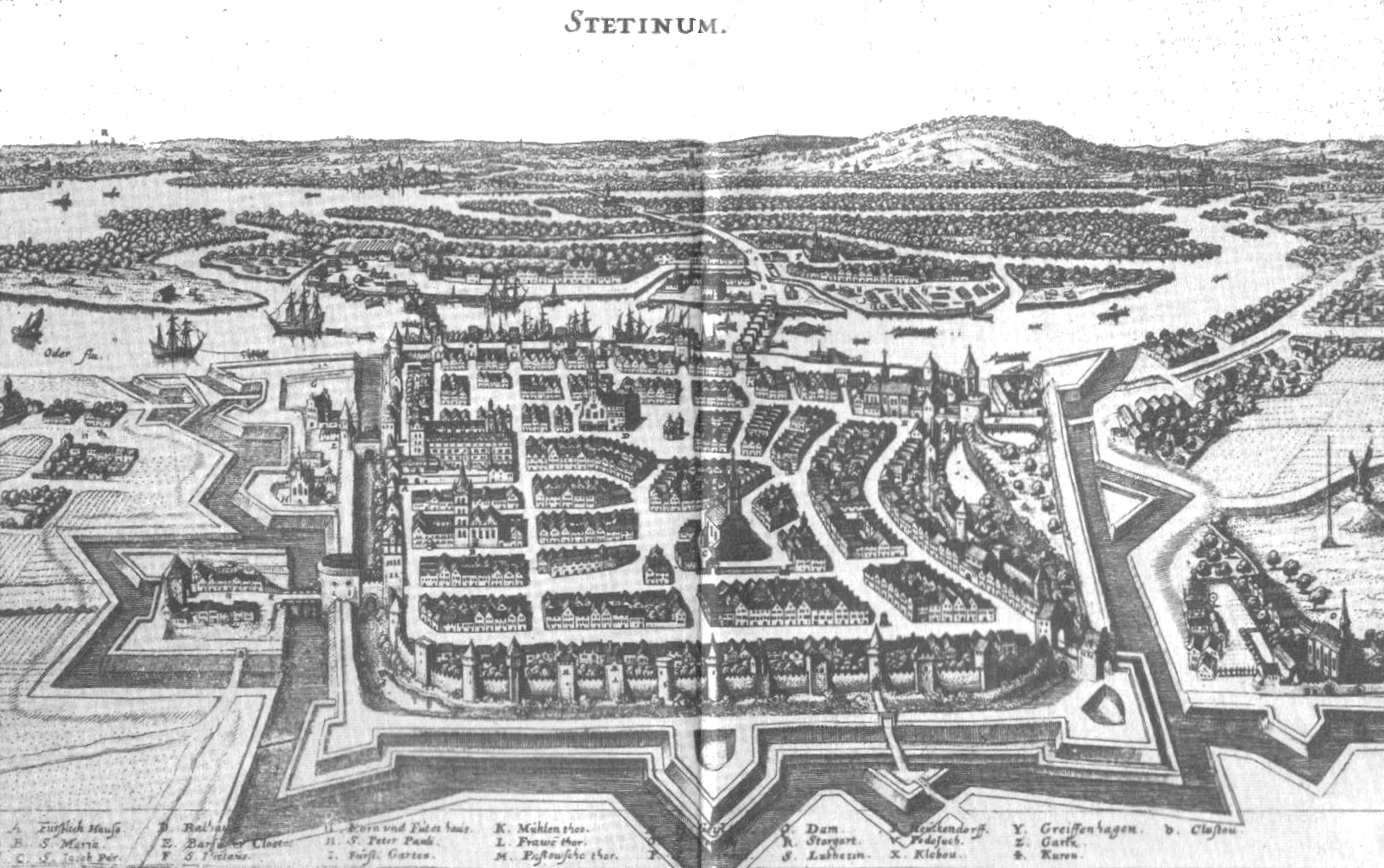 Engraving by Matthäus Merian shows Szczecin, Poland